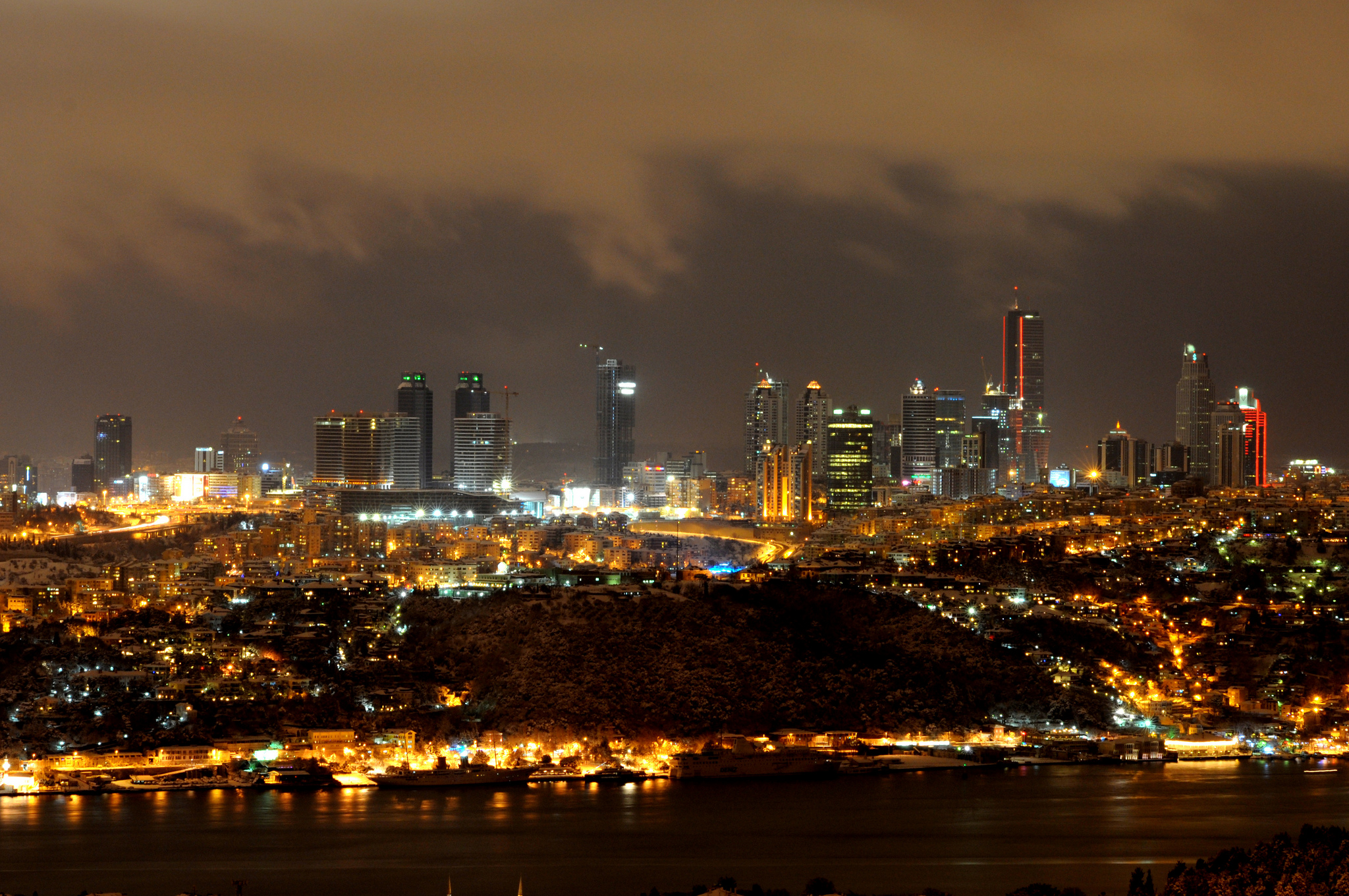 Skyline of Levent and European side of Istanbul at night in winter across the Bosphorus